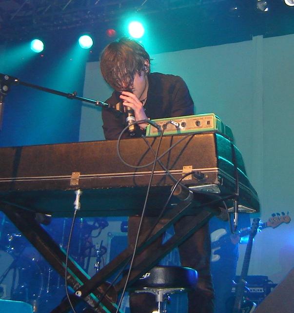 Conor Oberst performing with Bright Eyes at Schlachthof, in Wiesbaden, Germany.